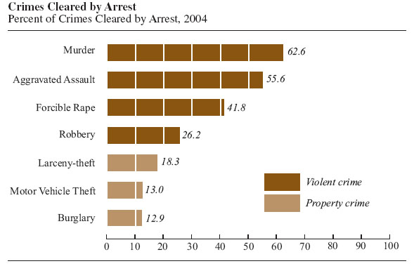 Chart indicating the overall clearance rate of indexed crimes in the Uniform Crime Report.